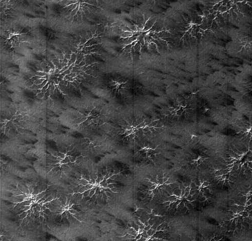 Image obtained in 1999 by NASA's Mars Orbiter Camera on the Mars Global Surveyor, portrayin Martian surface features known as "spiders" or "Dark dune spots".